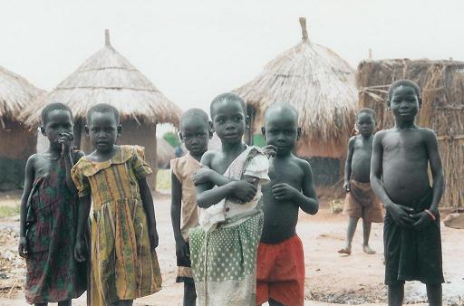 Summary Photo by N. Bauer